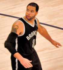 Deron Williams vs the Lakers